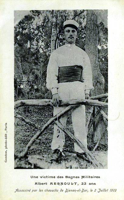 Albert Aernoult (19 October 1886 – 2 July 1909), a French soldier whose death in a punishment camp caused a public outcry